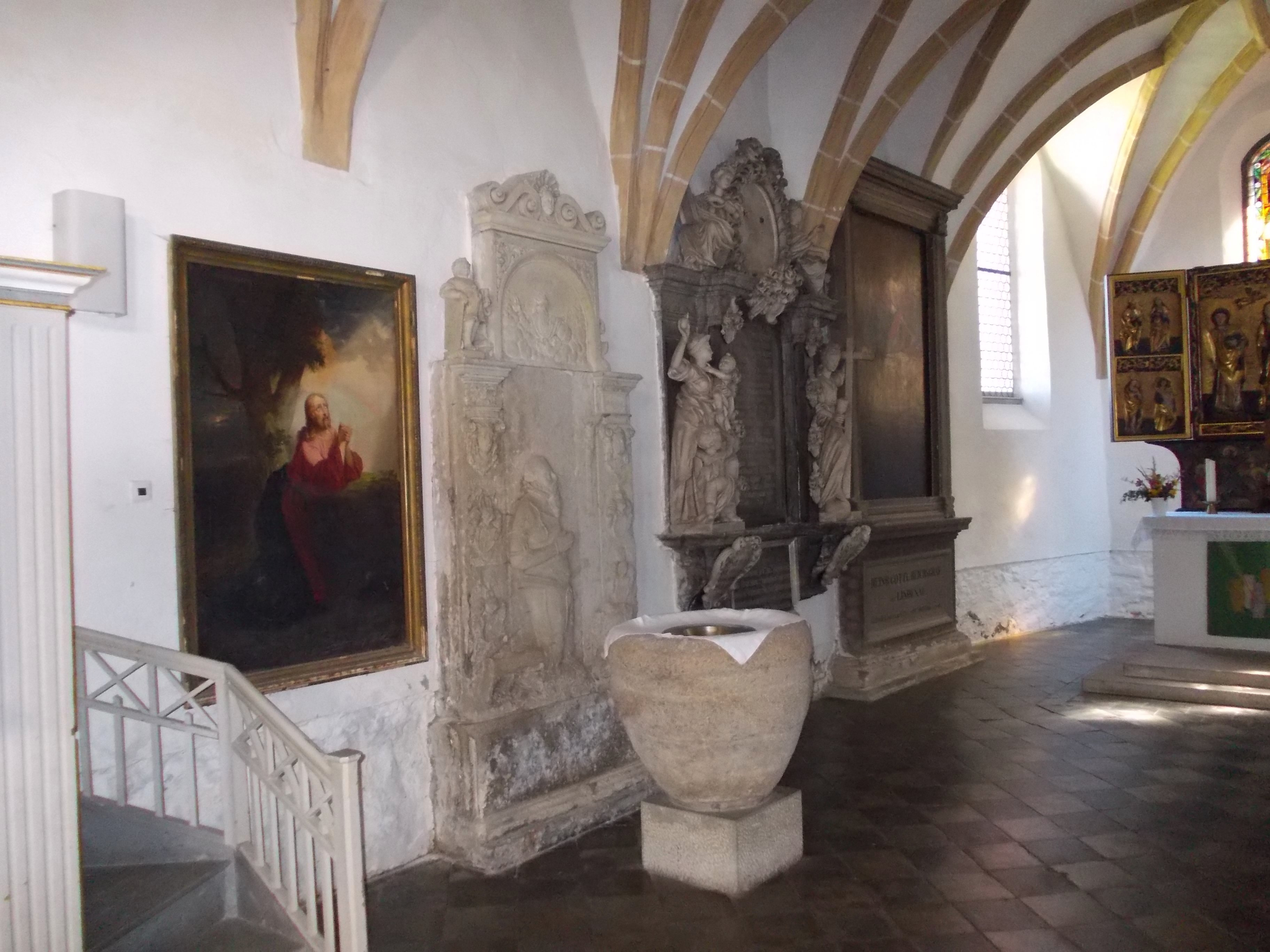 North side of the choir of St. Nicholas Church in Machern (Leipzig district, Saxony) with epitaphs of the von Lindenau family